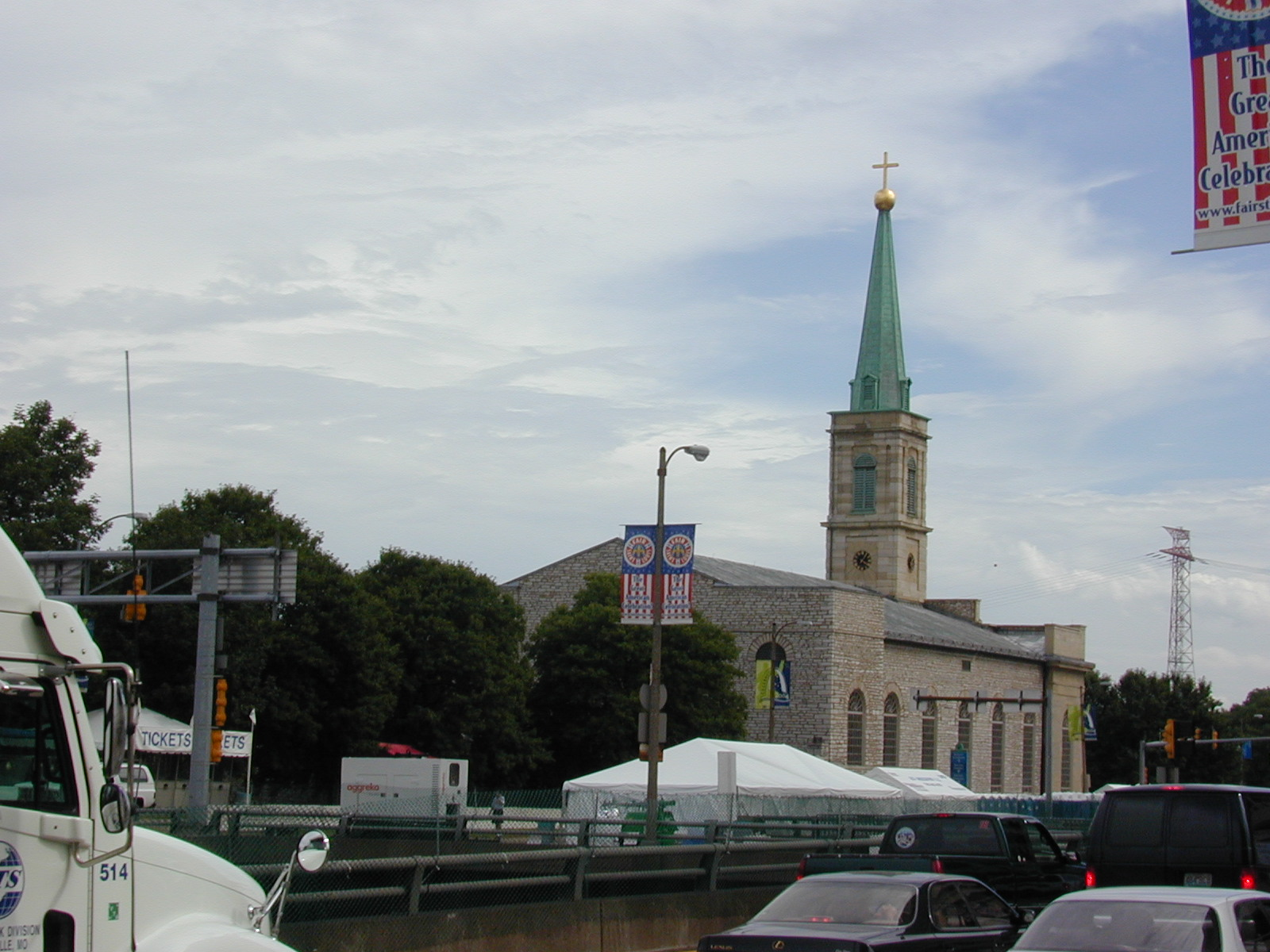 The Basilica cathedral of St. Louis, Mo. Jan Kronsell, July 2004